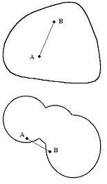 Convex and non-convex set